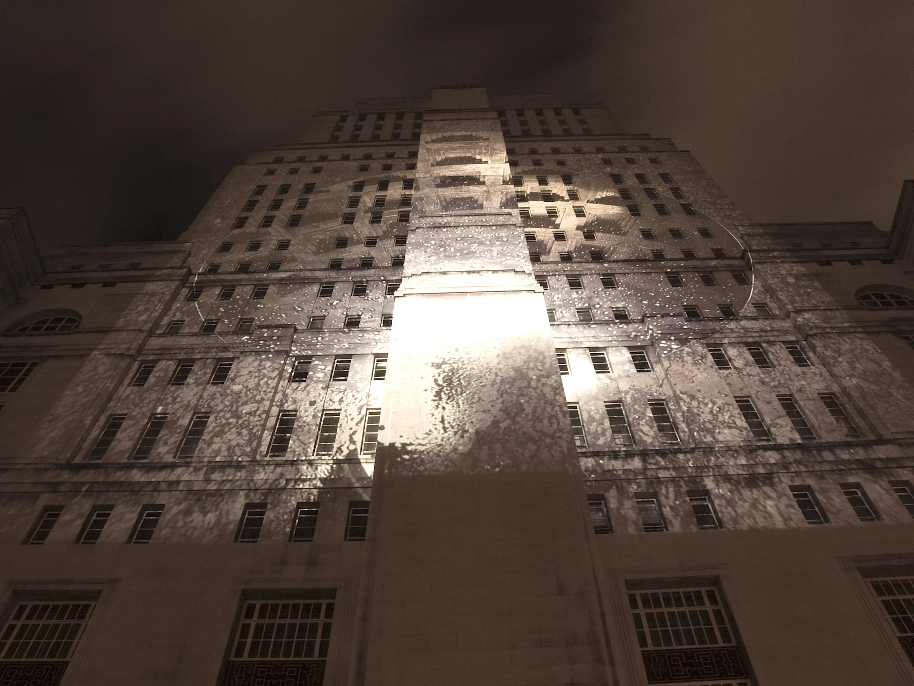 Concrete Liaison is a light-based installation made by Jane Boyd for Senate House Tower, London